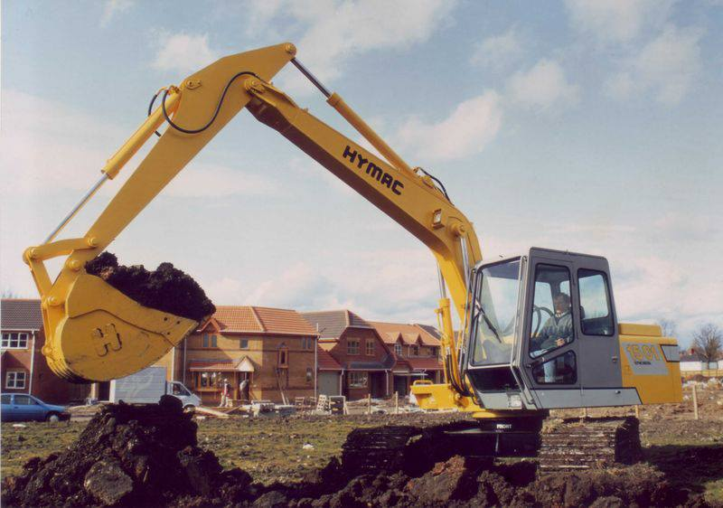 HY-MAC 1501 Excavator, British Design.